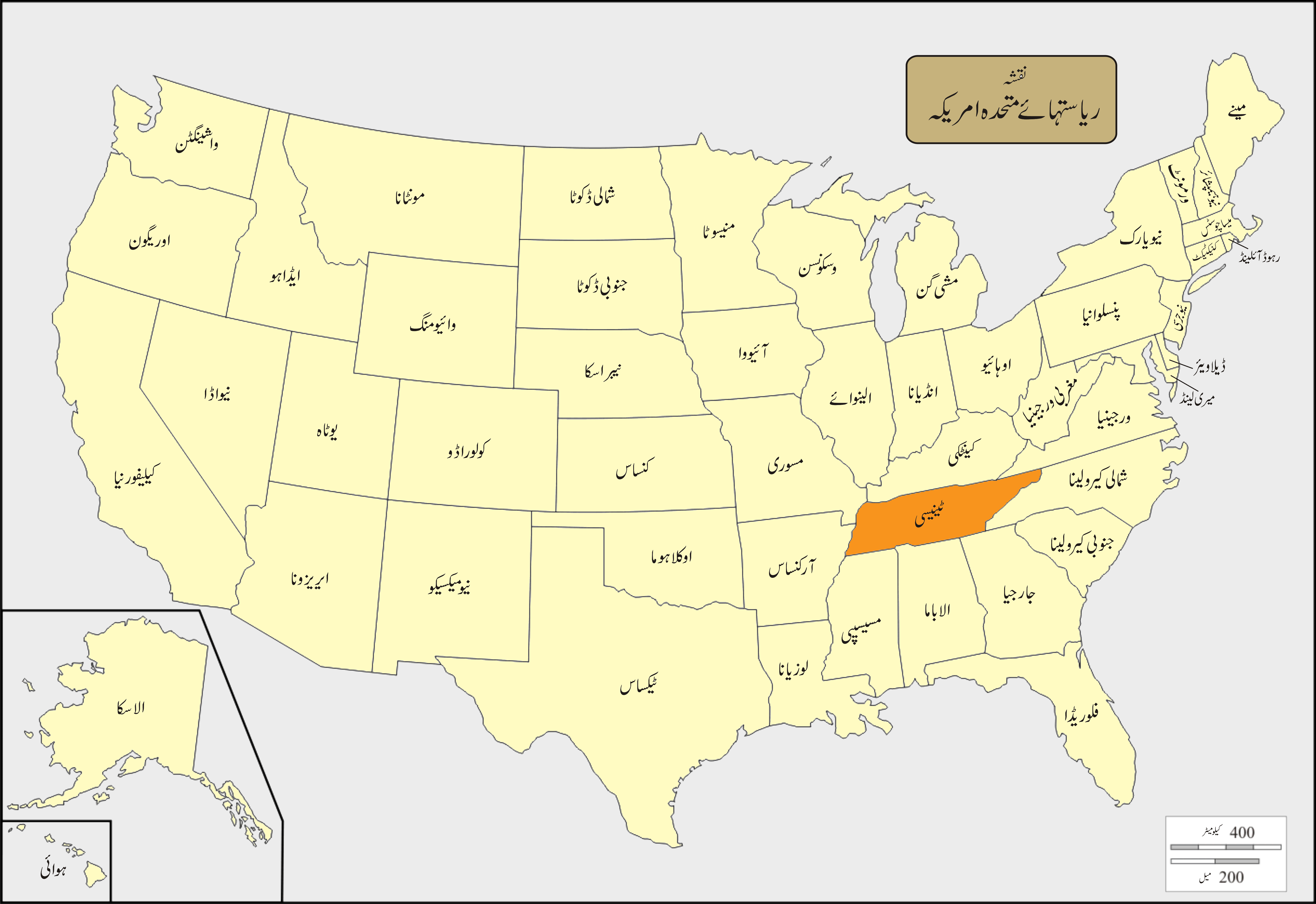 USA Names Tennessee